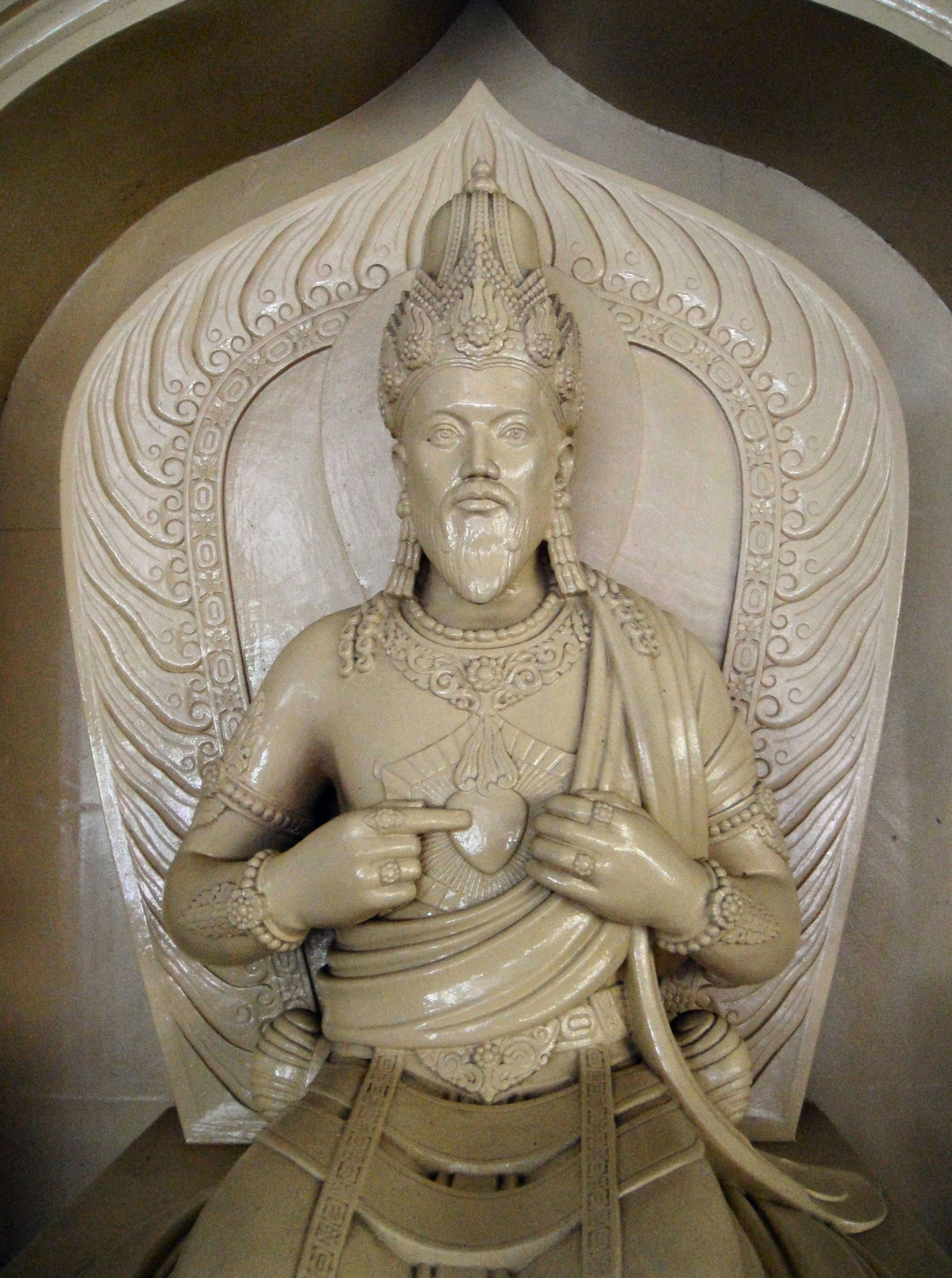 Christ as a Javanese Prince, Ganjuran, Bantul, Java, Indonesia